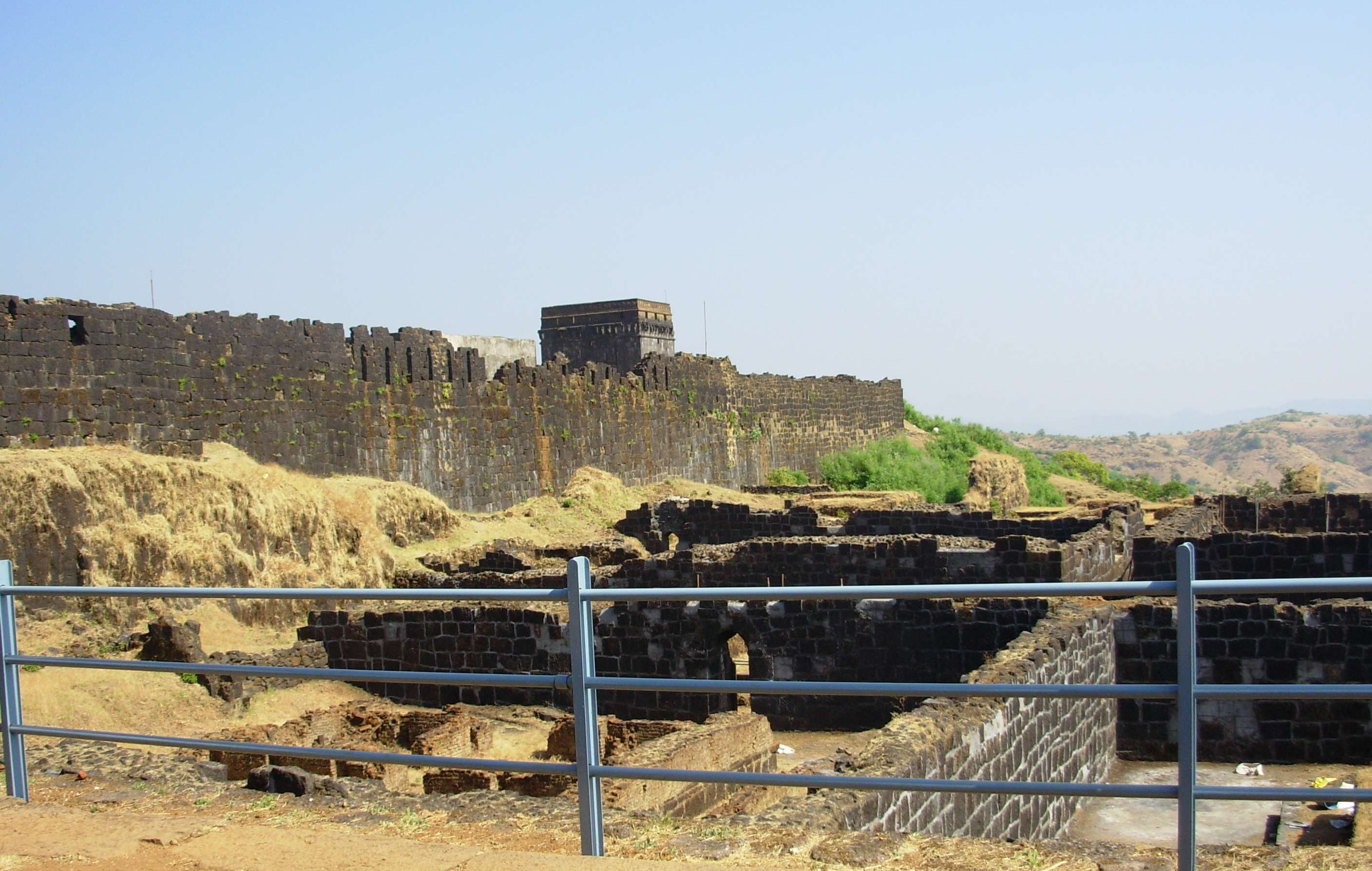 Photo of the ruins of the Raigad Fort taken by me on en:9 December, en:2001.